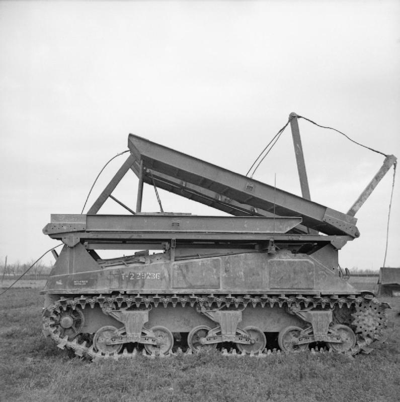 The British Army in Italy 1945 Sherman Twaby Ark bridging vehicle with ramps in travelling position, 4 April 1945.